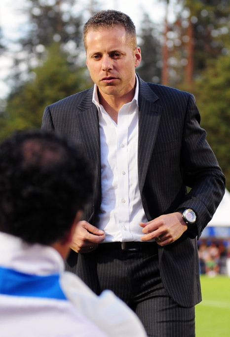 Photo of soccer coach, Marc Dos Santos of the Montreal Impact of the USL. Wilson Wong photo.